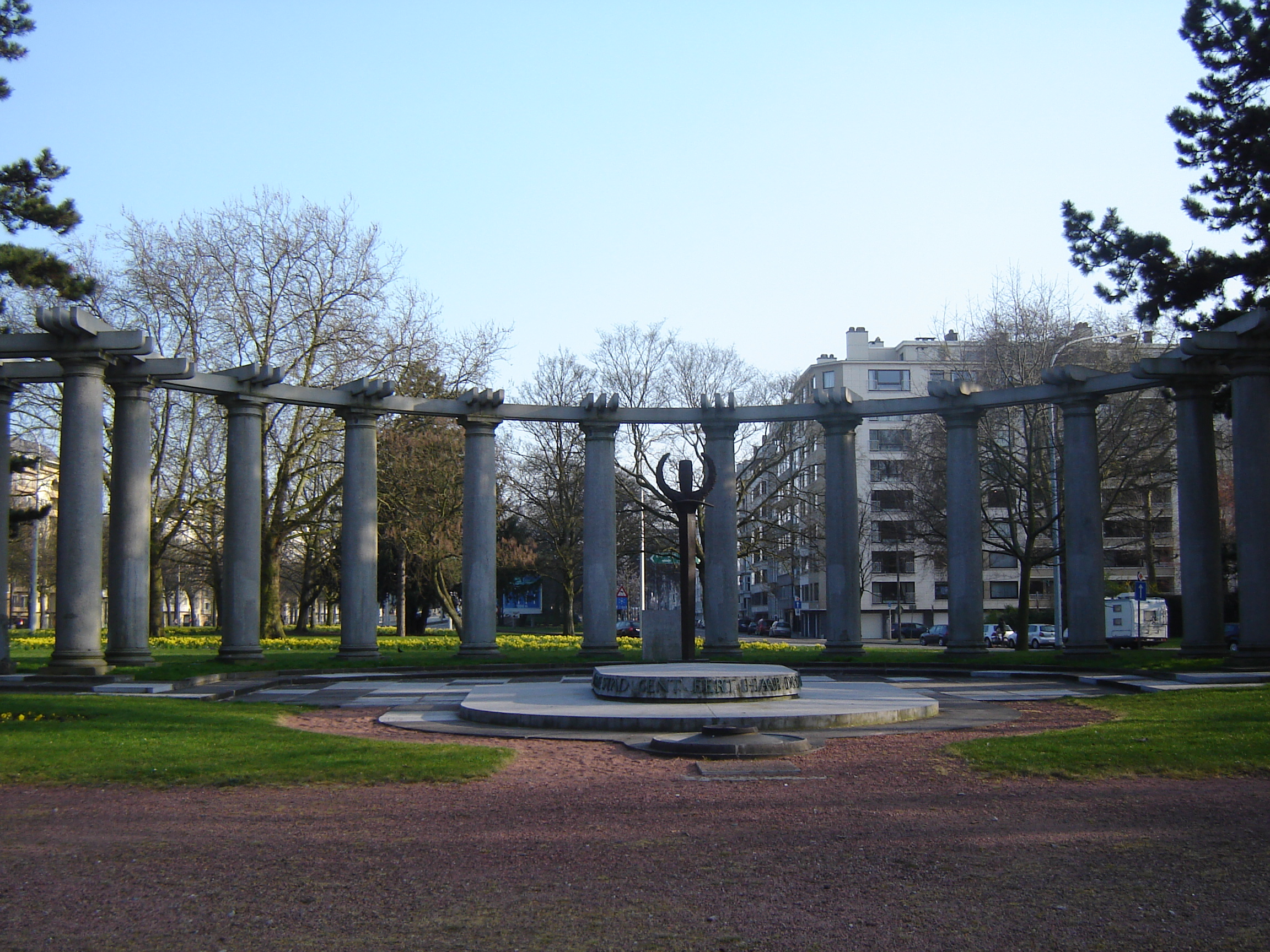 War memorial at the Achtmeiplein square at the Koning Albertpark in Gent. Gent, Oost-Vlaanderen, Belgium